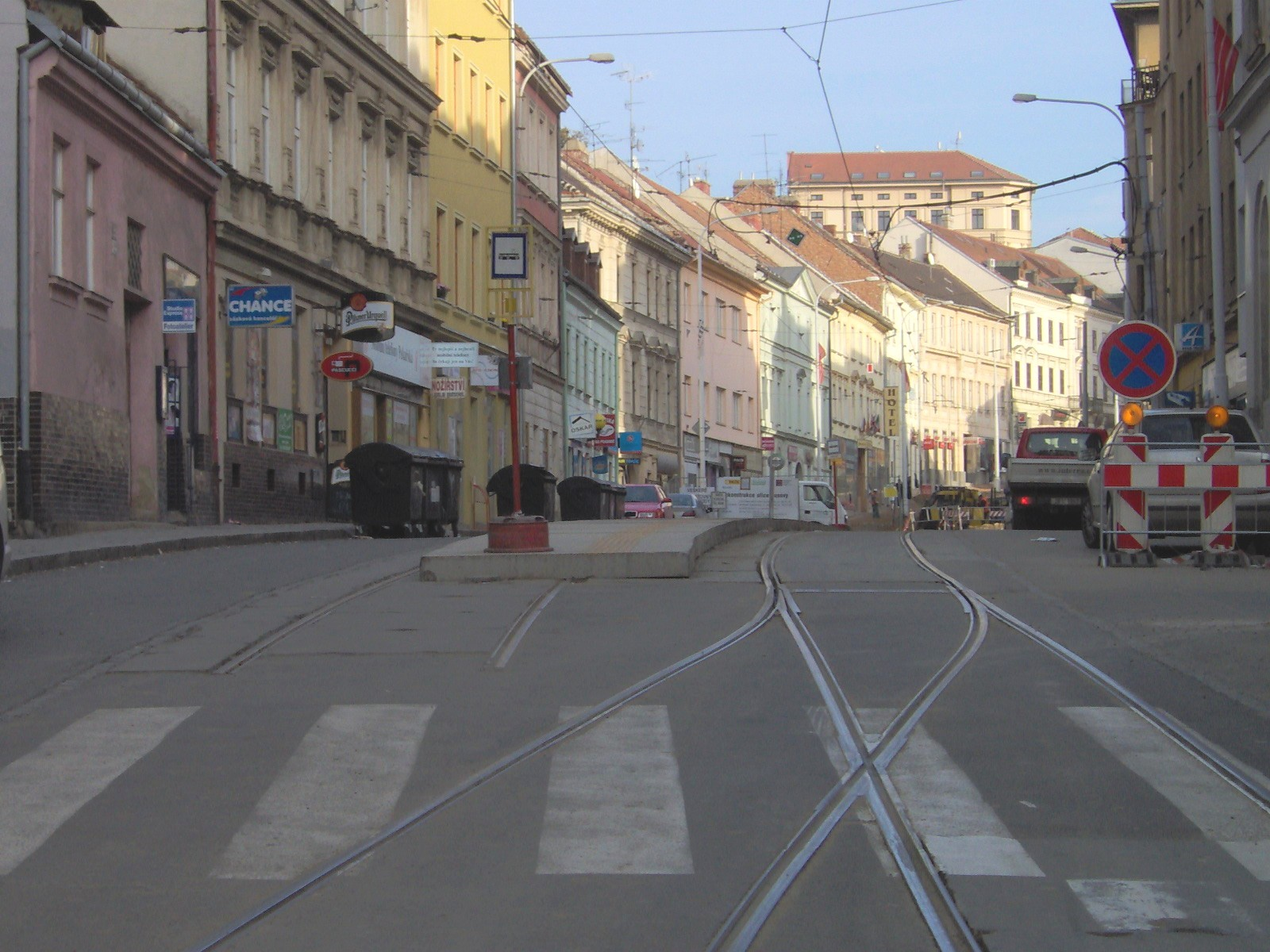 Tram track in Pekařská street Česky: Tramvajová trať v Pekařské ulici, provizorní konečná Šilingrovo náměstí